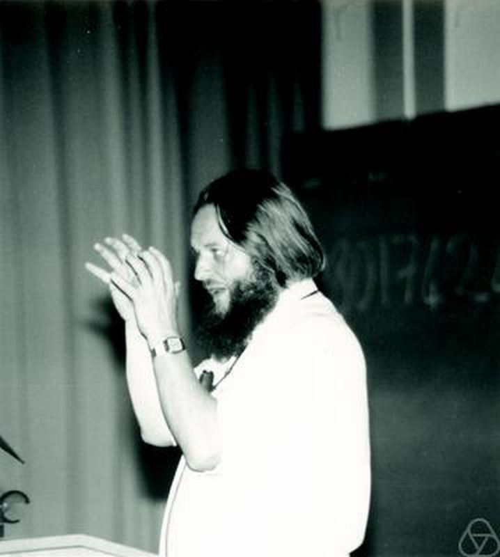 John Horton Conway, DMV Jahrestagung 1987 in Berlin